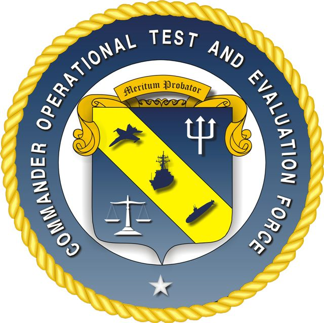 Official seal for Operational Test and Evaluation Force (OPTEVFOR) - U.S. Navy